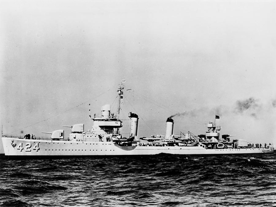 The U.S. Navy destroyer USS Niblack (DD-424) during builder's trials, circa in the summer of 1940. Note the Bath Iron Works flag flying at the foremast peak.